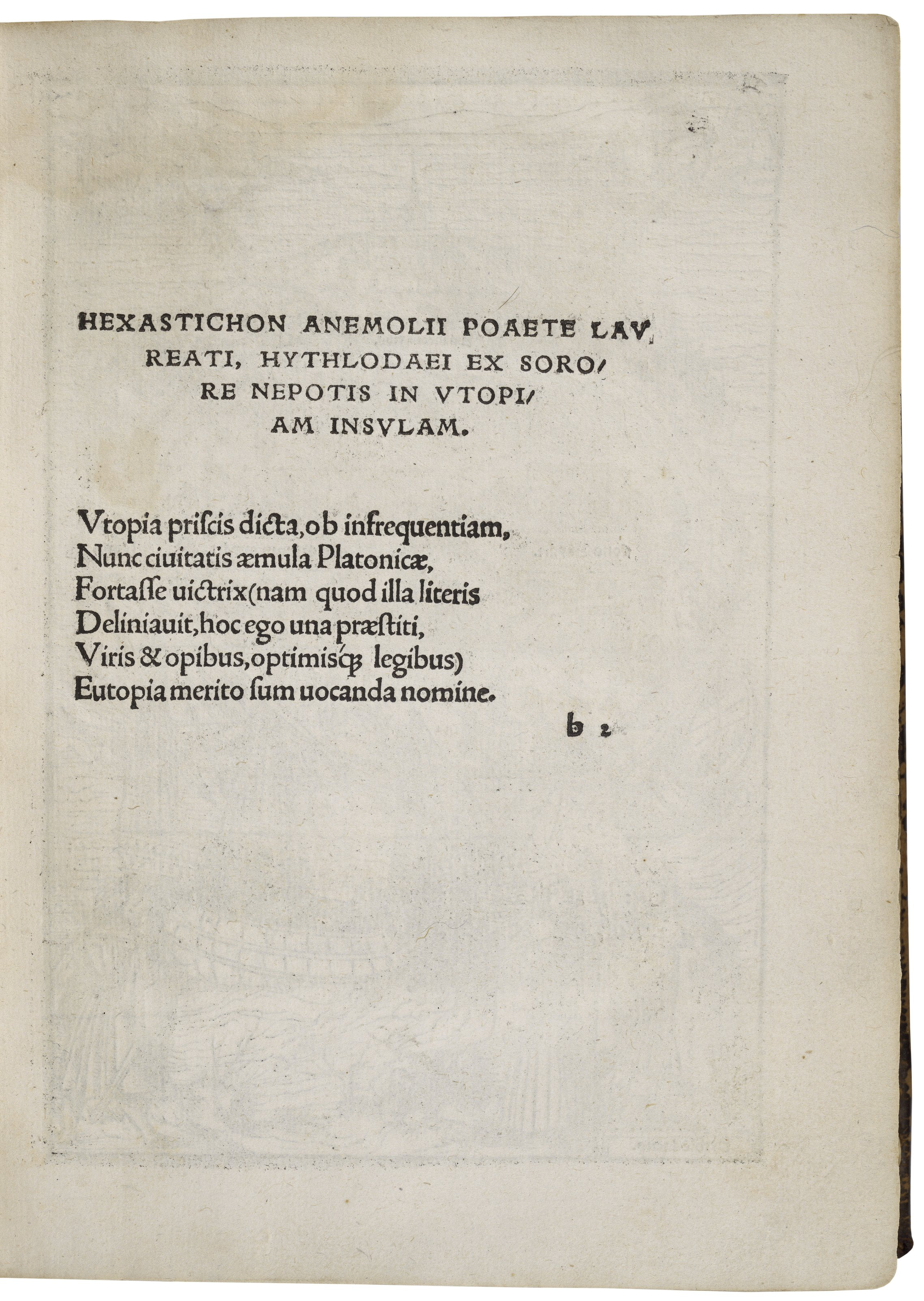 This is the "Hexastichon" written by Anemolius (i.e. Th. More) in Thomas More's Utopia (november, 1518)